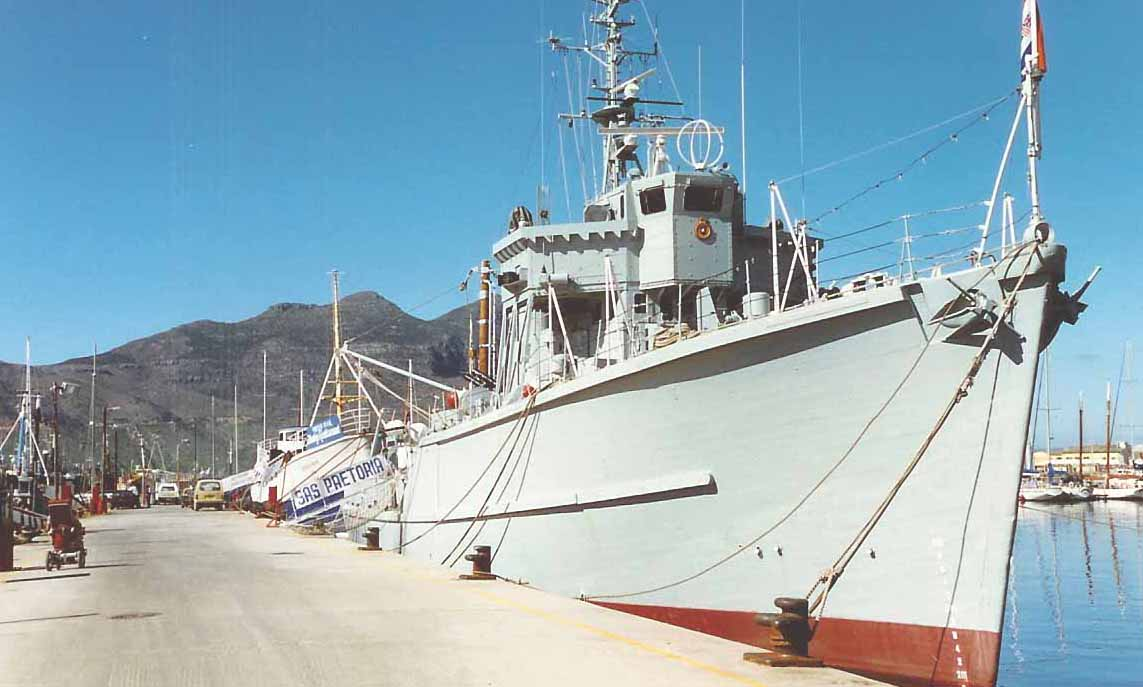 Ton class minesweeper SAS Pretoria, P1556, M1144 (ex HMS Dunkerton; ex HMS Golden Firefly) - museum ship in Hout Bay